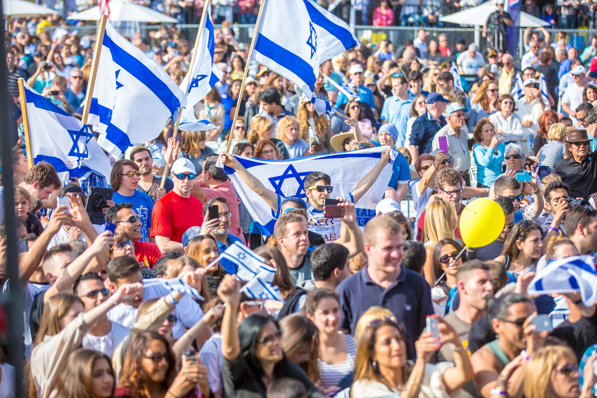 Israeli-American Council Celebrate Israel Festival in Miami, Florida